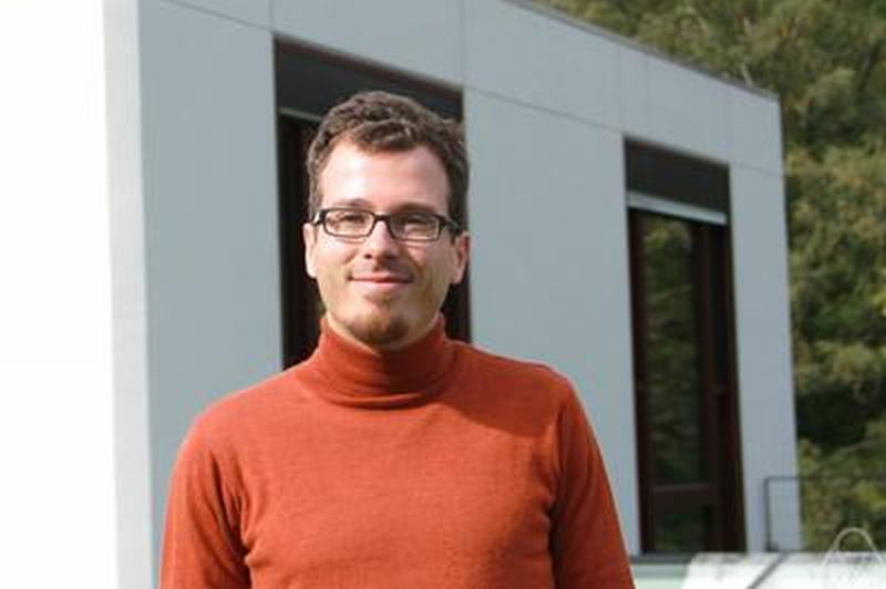 Johannes Nicaise, Oberwolfach 2013